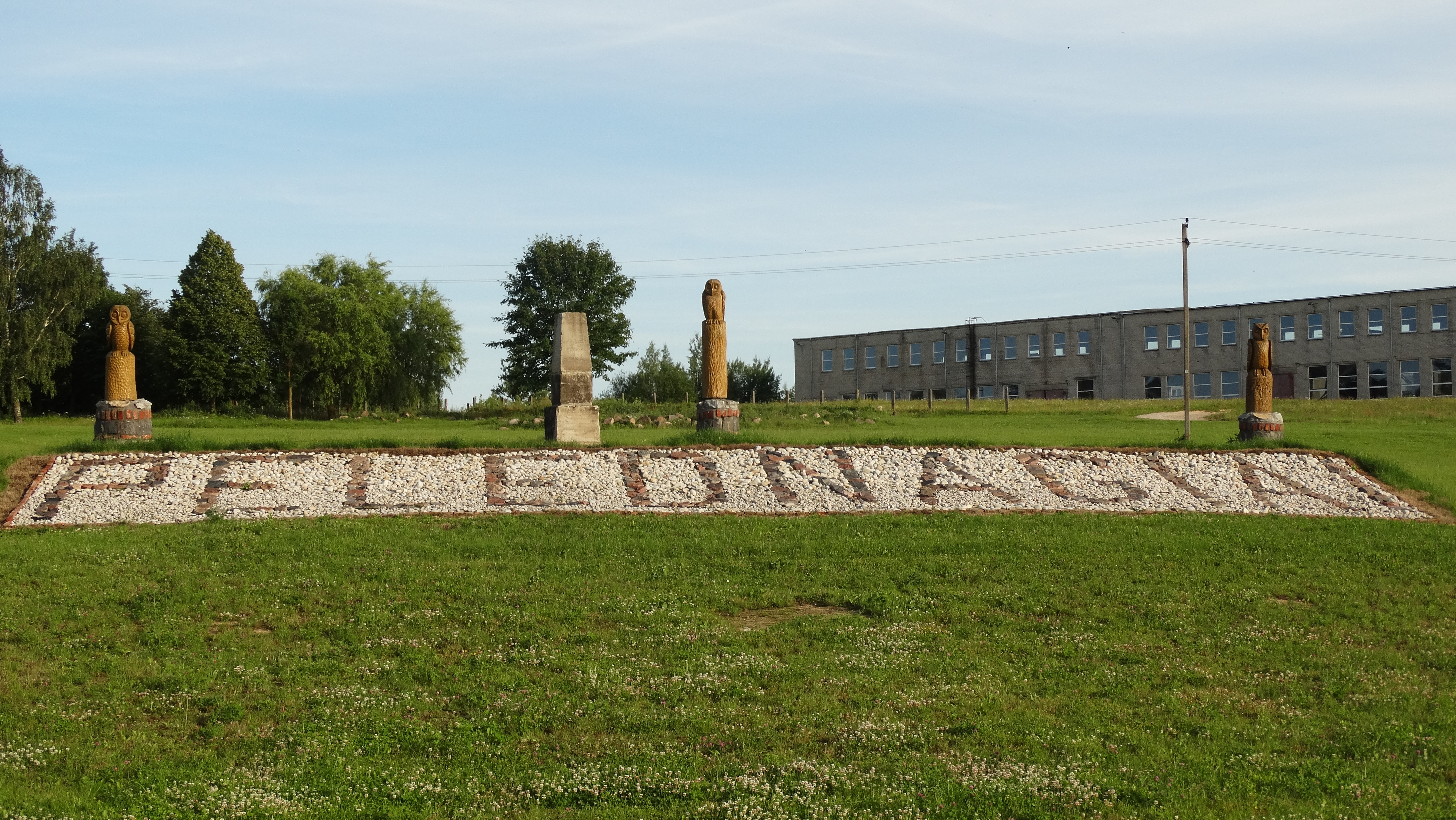 Pelėdnagiai, Kėdainiai District, Lithuania